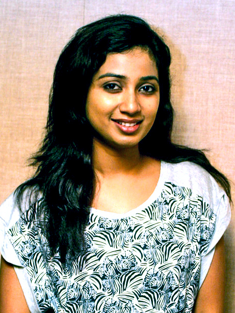 Shreya ghoshal dubbing a song for 'saali khushi'